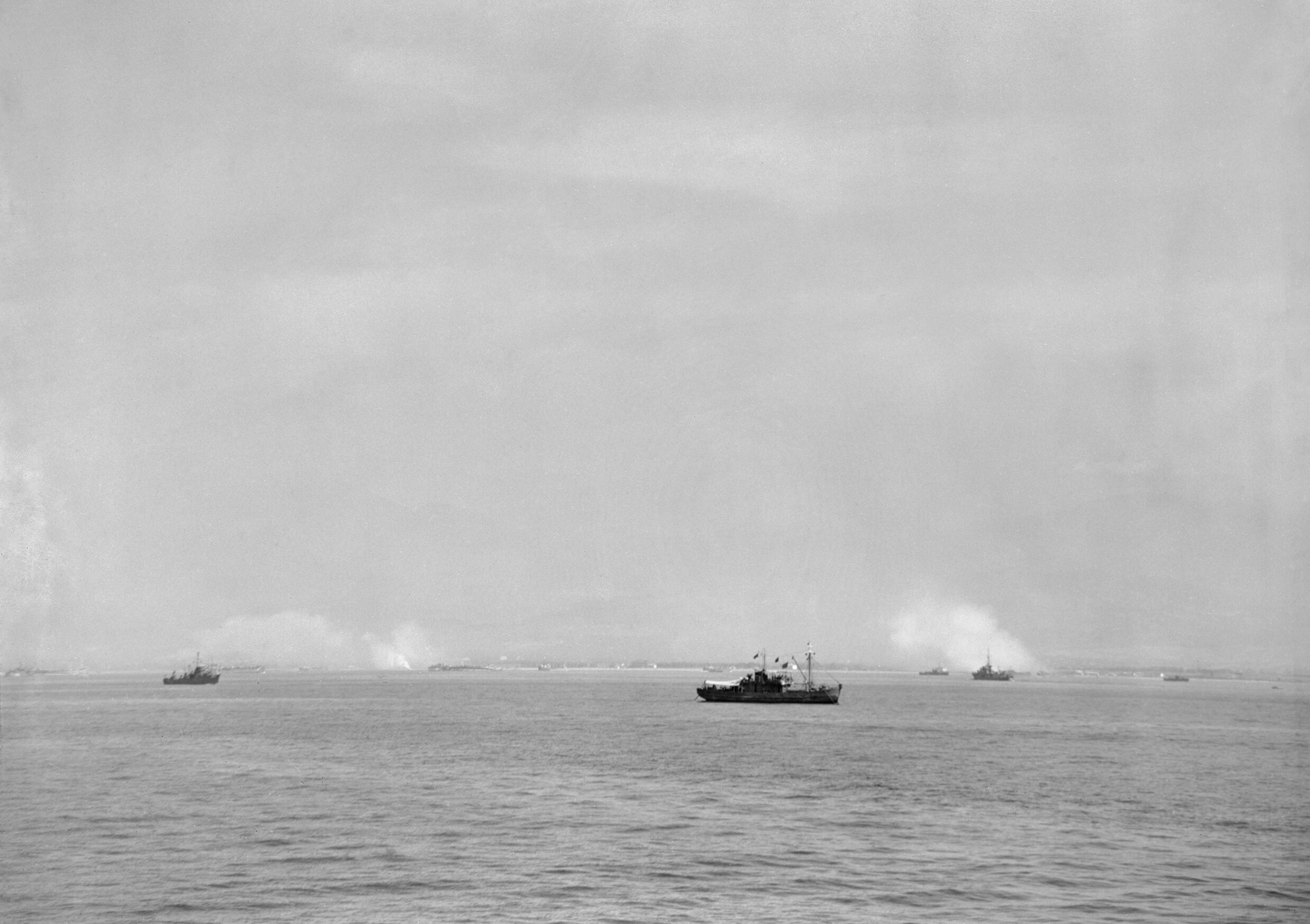 The Royal Navy during the Second World War Salerno, 9 September 1943 (Operation Avalanche): In the distance British warships put a terrific supporting bombardment against well established German shore batteries and entrenchments as fighting goes on on the beaches of Salerno Bay. This bombardment continued throughout the bitter fighting since the landings.